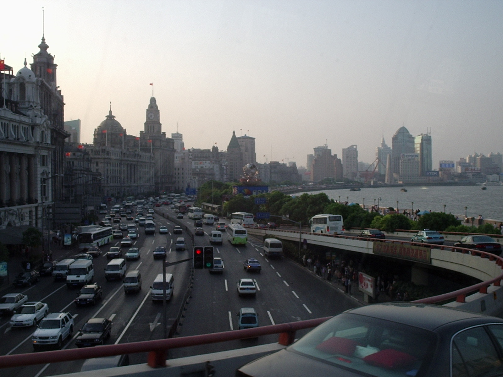 A view along the Bund from a highway overpass, Shanghai.